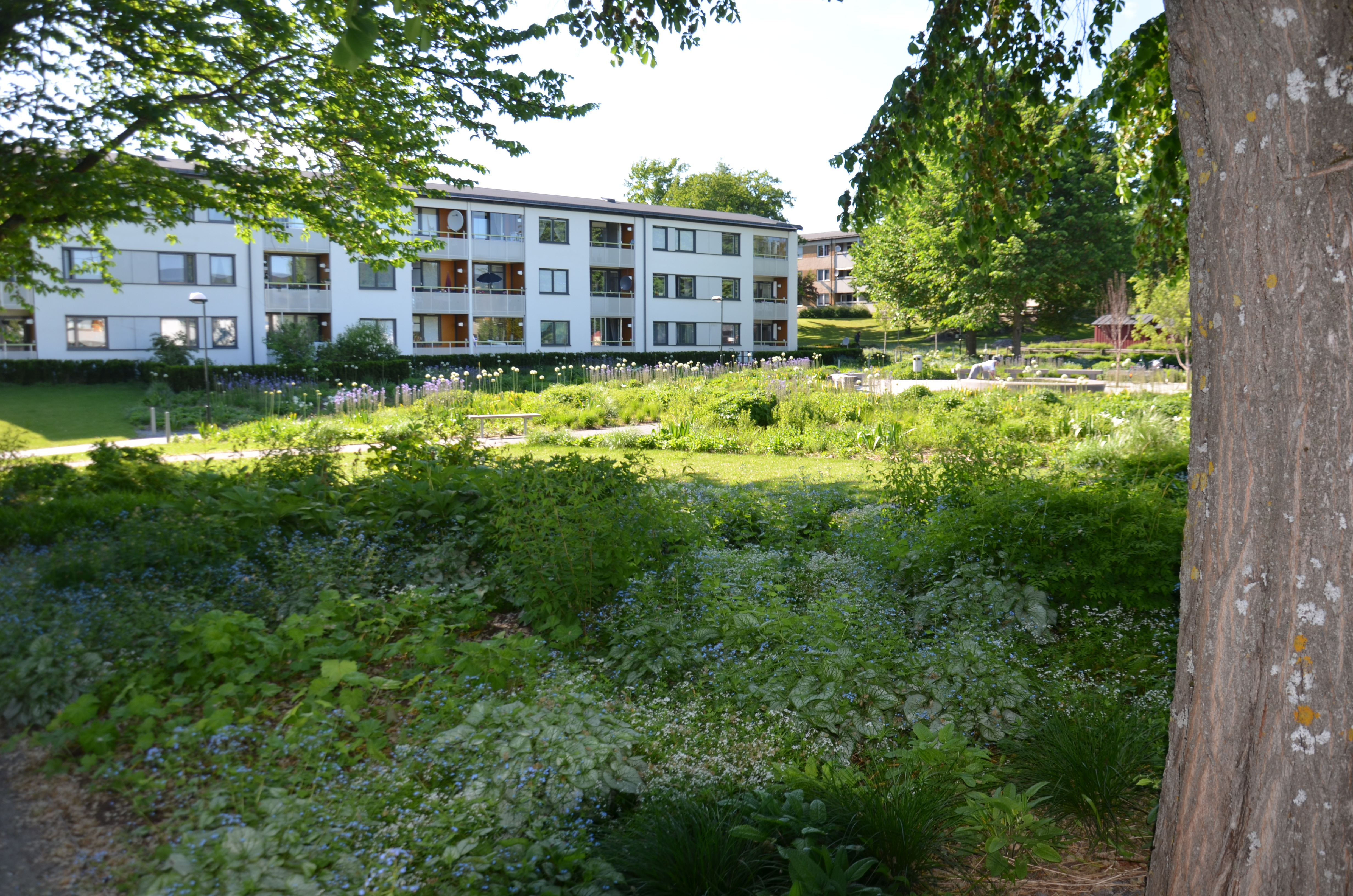 Perennparken at Skärholmen in Stockholm, Sweden. Designed by Piet Oudlof.